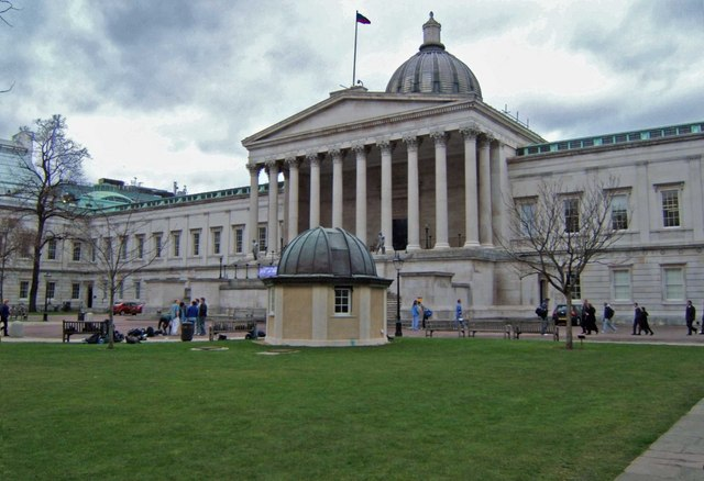 "The Godless Institution in Gower St" It was a London Standard Editorial that first described University College London as “The Godless College in Gower Street”. This was because the third oldest University Institution in England was the first to accept students who were not members of the Church of England. The insult has been misquoted in a myriad of ways but replacing College with Institution is one of the more common.